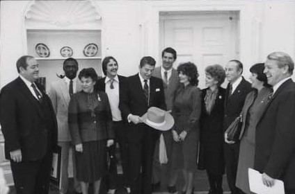 1981 Clemson Tigers football team and Strom Thurmond visited the Oval Office in January 1982. including President Reagan, Strom Thurmond, Nancy Thurmond, William Atchley, Patricia Atchley, Danny Ford, Deborah Ford, H.C. "Bill" McLellan, Homer Jordan, Jerry Gaillard, Ann McLellan, Lee Atwater